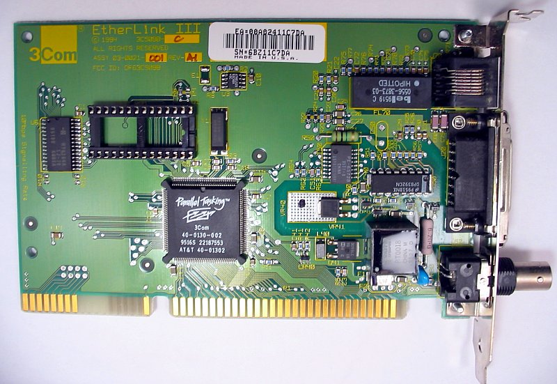 network card